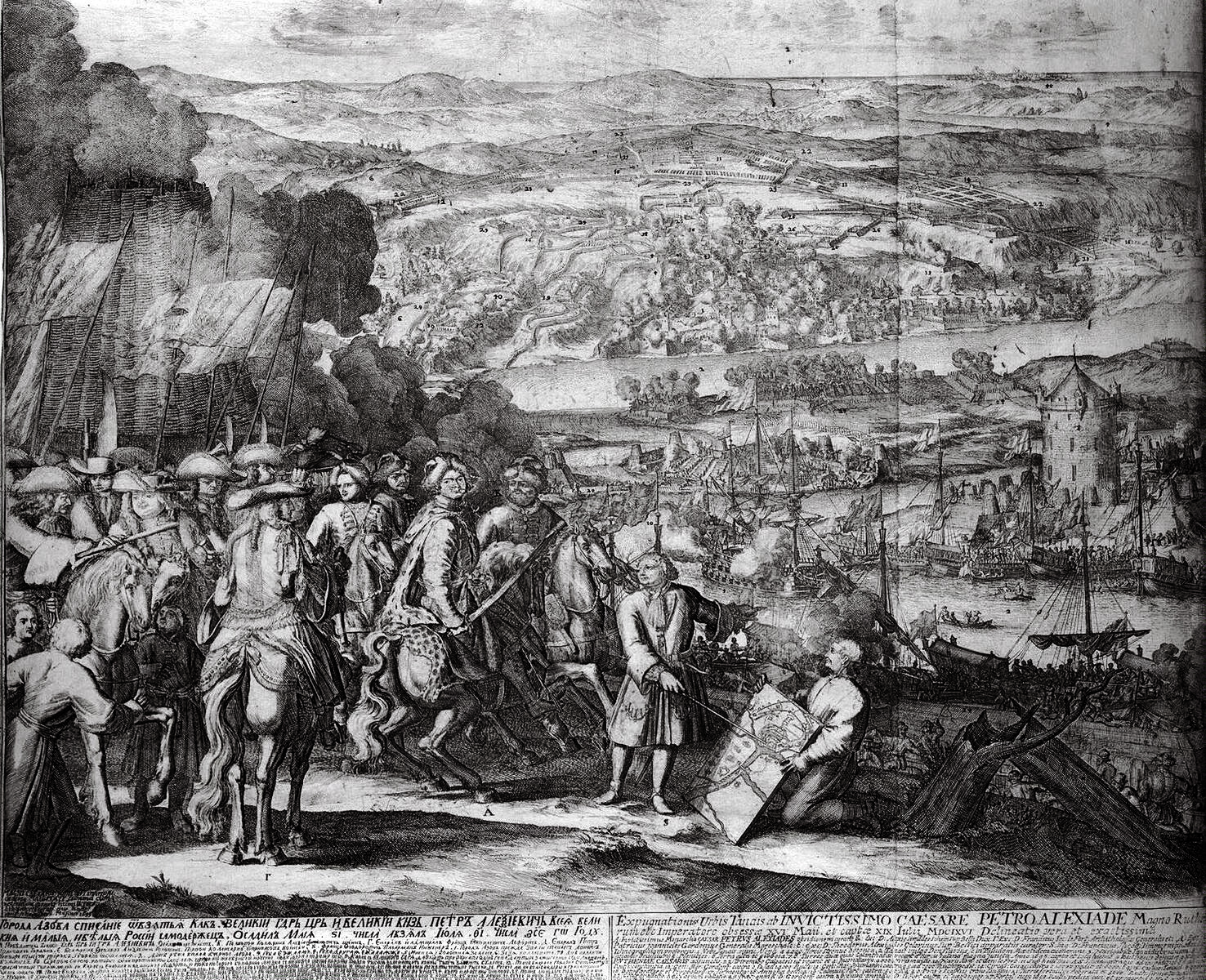 Adriaan Schoonebeek. Taking of Azov (1699).